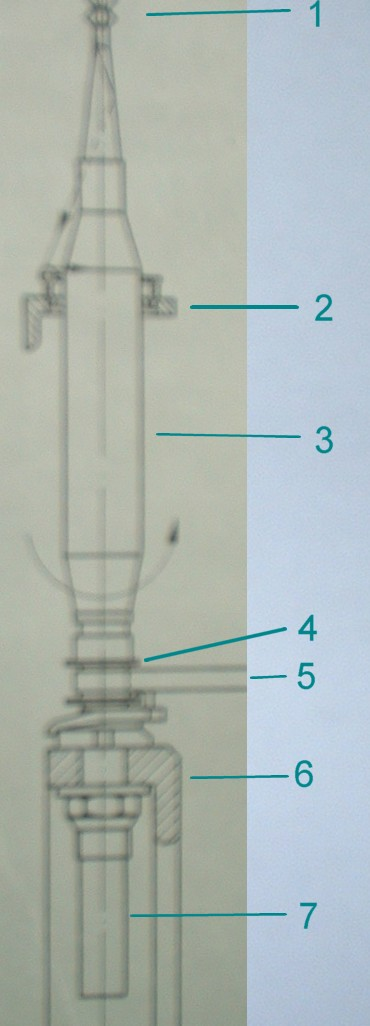 Spindle at the ring spinning machine